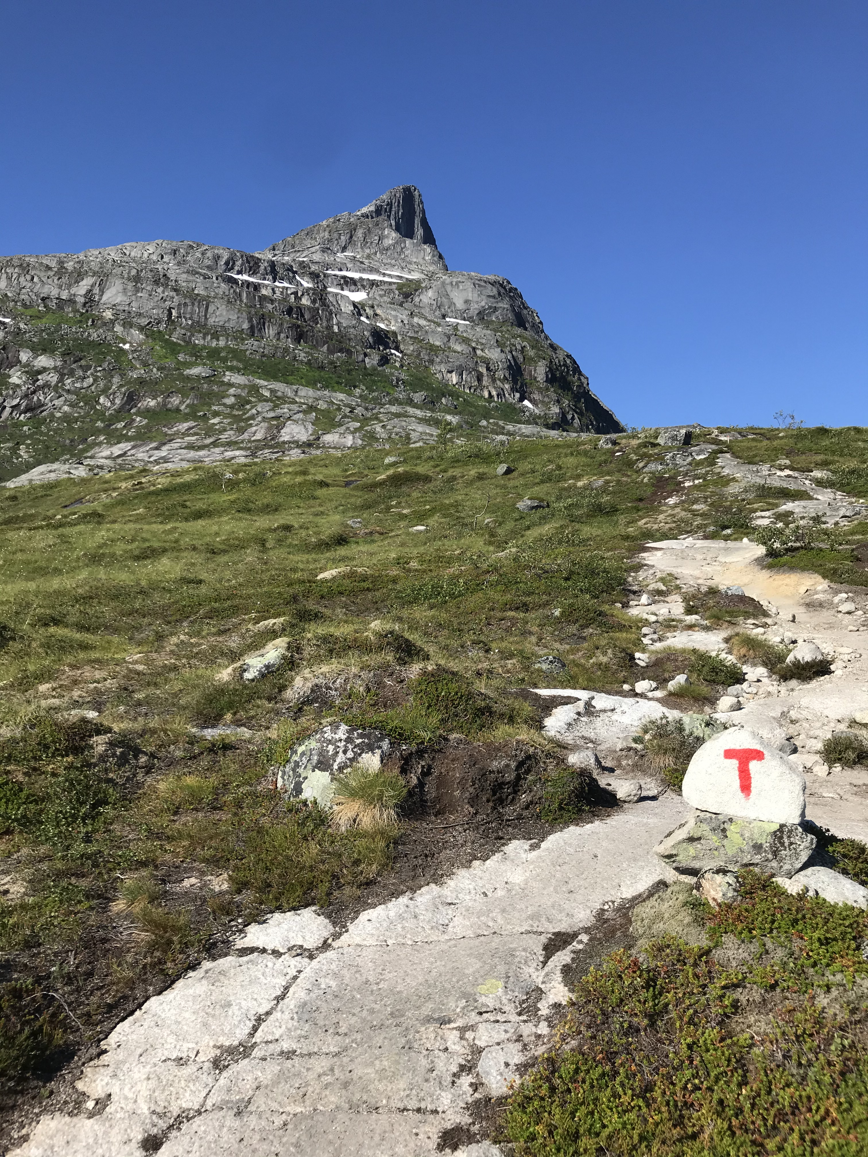 Path to the mountain Store Blåmann in Tromsø, Norway